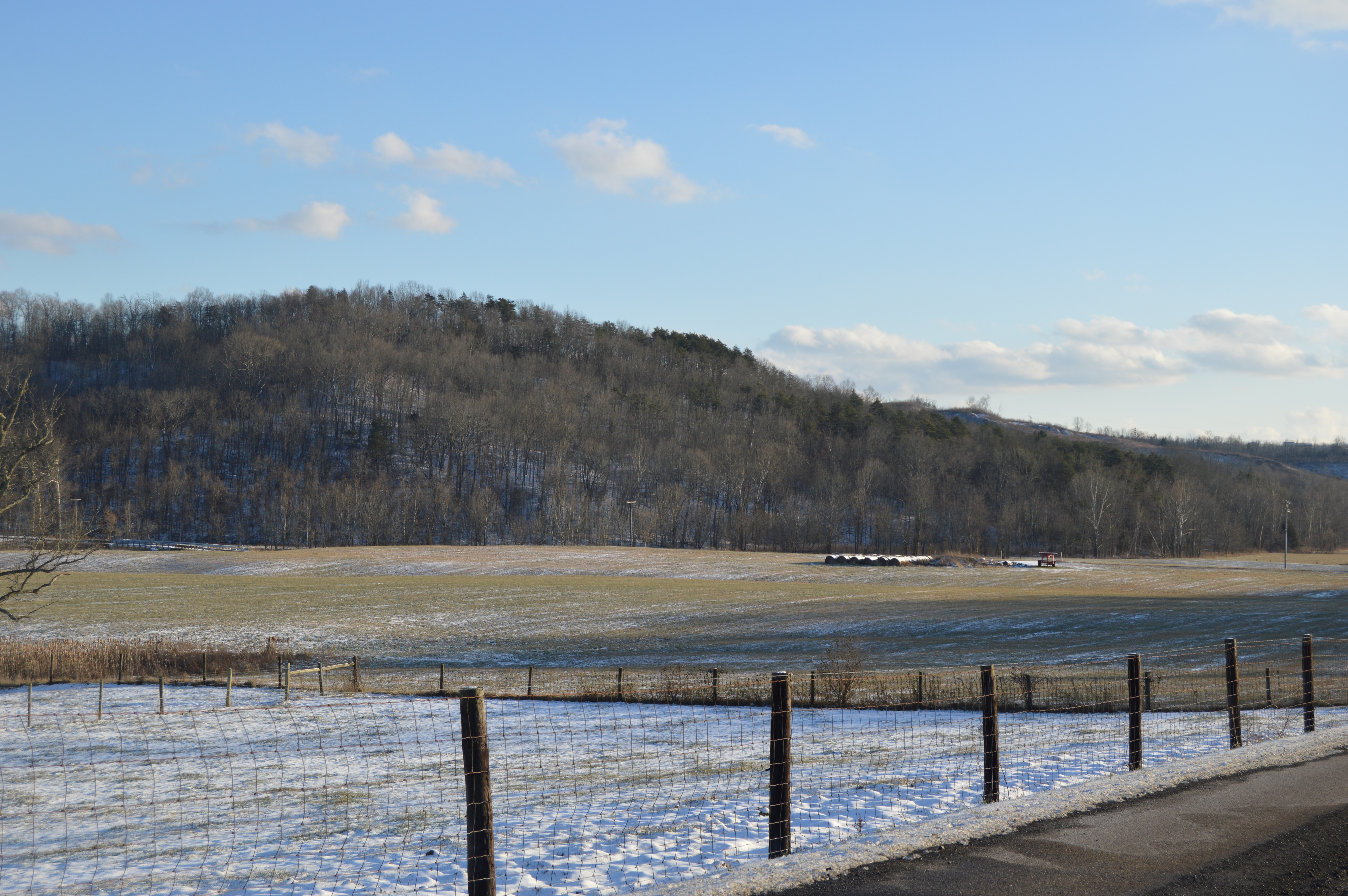 Farm fields along Lincoln Pike south of Northup in northern Harrison Township, Gallia County, Ohio, United States.